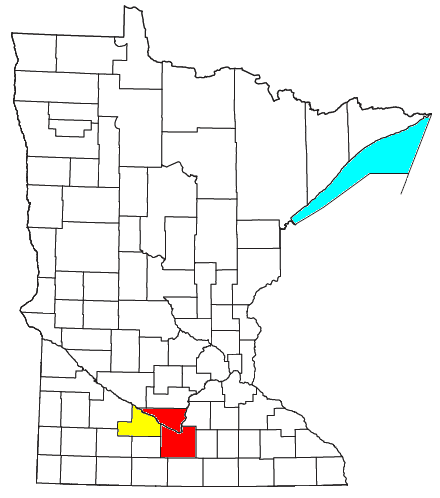 Locator map of the Mankato-New Ulm-North Mankato Combined Statistical Area (CSA) in the southern part of the U.S. state of Minnesota. The two components of the CSA are colored separately: Mankato-North Mankato Metropolitan Statistical Area: red New Ulm Micropolitan Statistical Area: yellow